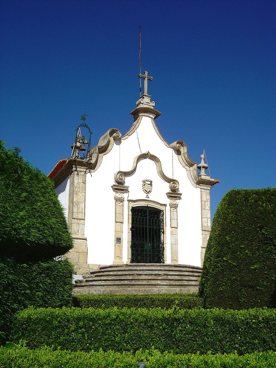 Capela do Sr. do Calvário See where this picture was taken. [?]